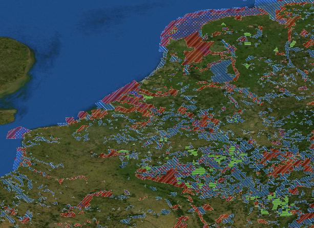 Overview Natura 2000 areas Netherlands and Belgium